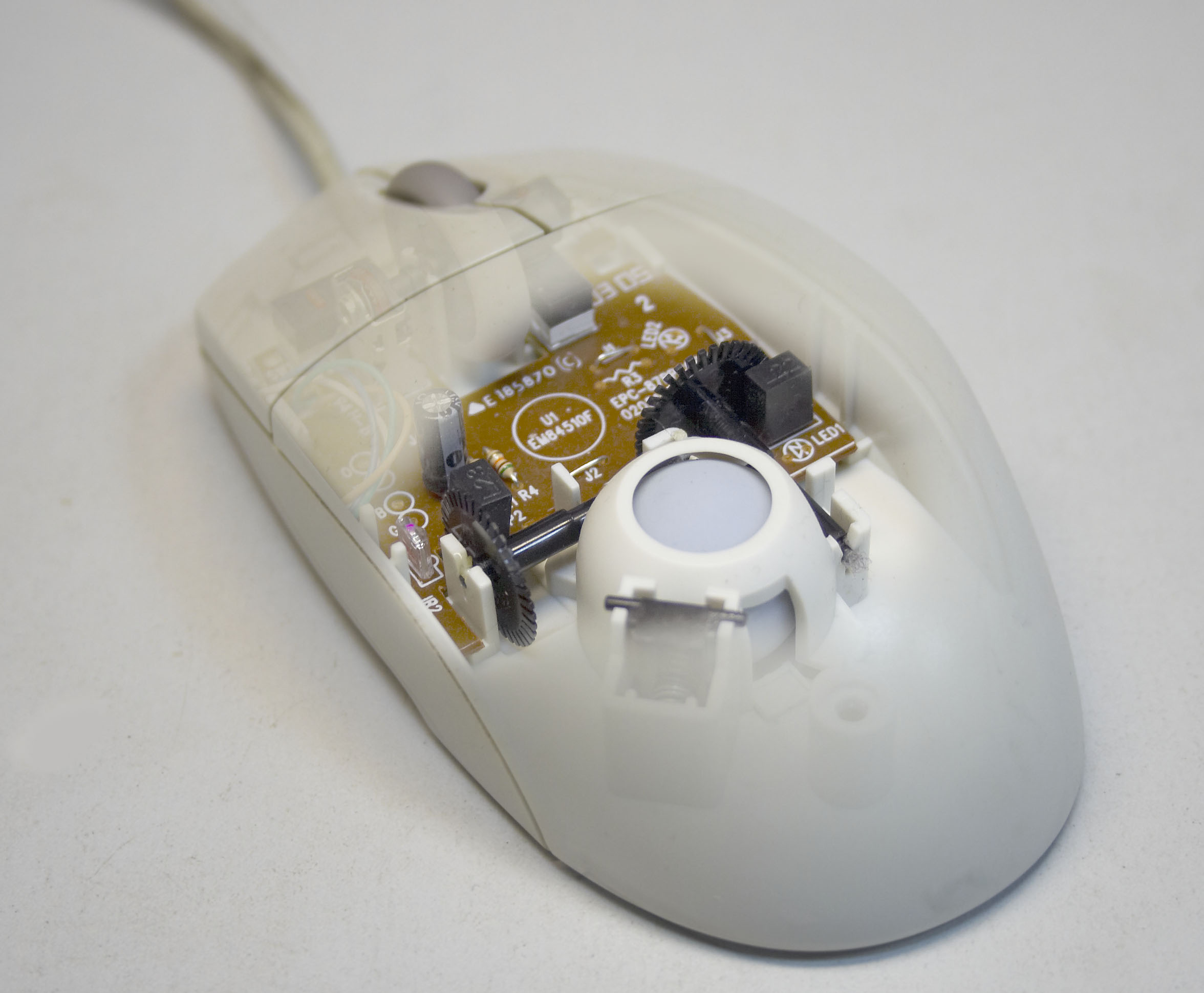 Semi-inside view of computer ball mouse (with open coordinate couplers), user view orientarion